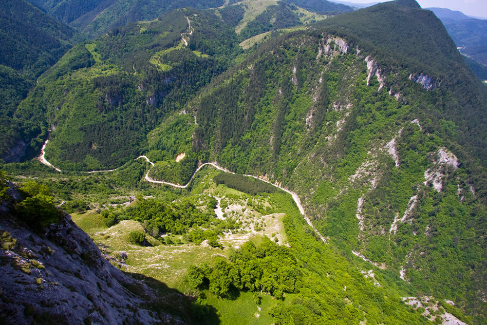 Гледка от платформата "Орлово око" към Буйновското ждрело.